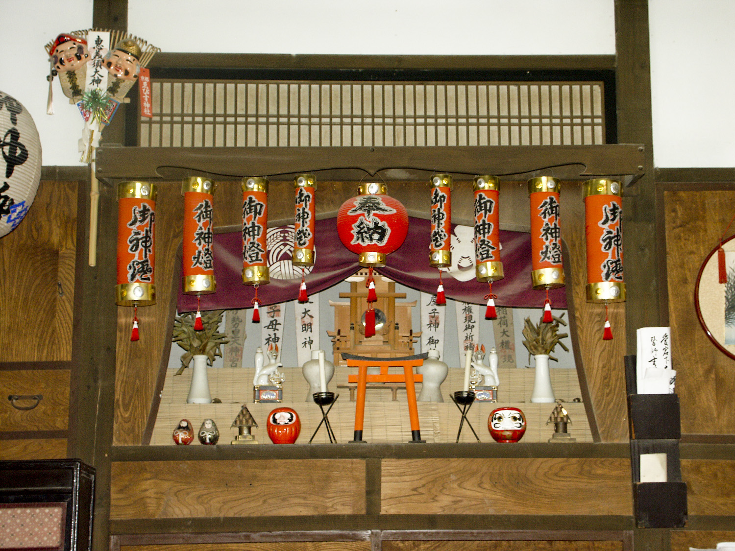 Toei Uzumasa Studios, Kyoto, Japan I contribute my rights in the file to the public domain. People and organizations retain rights to images in the file. Kamidana